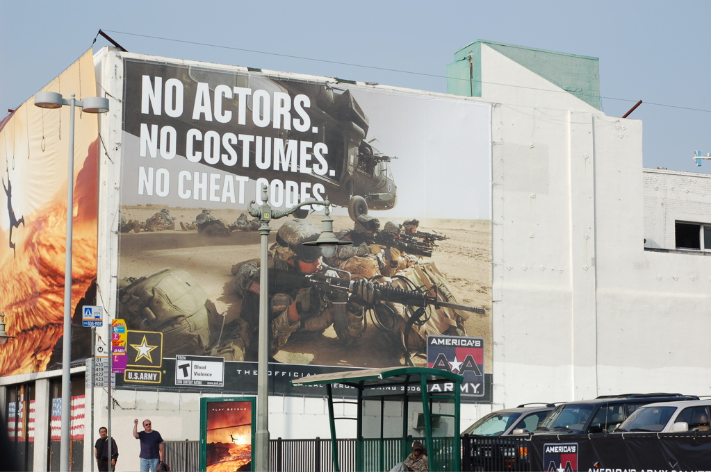 Every year, the US Army's presence at E3 becomes less about the America's Army game and more about actually recruiting kids to go and get shot in the Middle East. I like to think that in Britain, this sign wouldn't have lasted a single night without "No Extra Lives Either, Assholes" being spraypainted under the slogan.